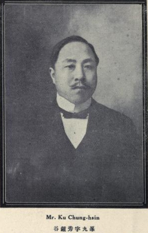 Gu Zhongxiu,Jiufeng(1874 - 1949)